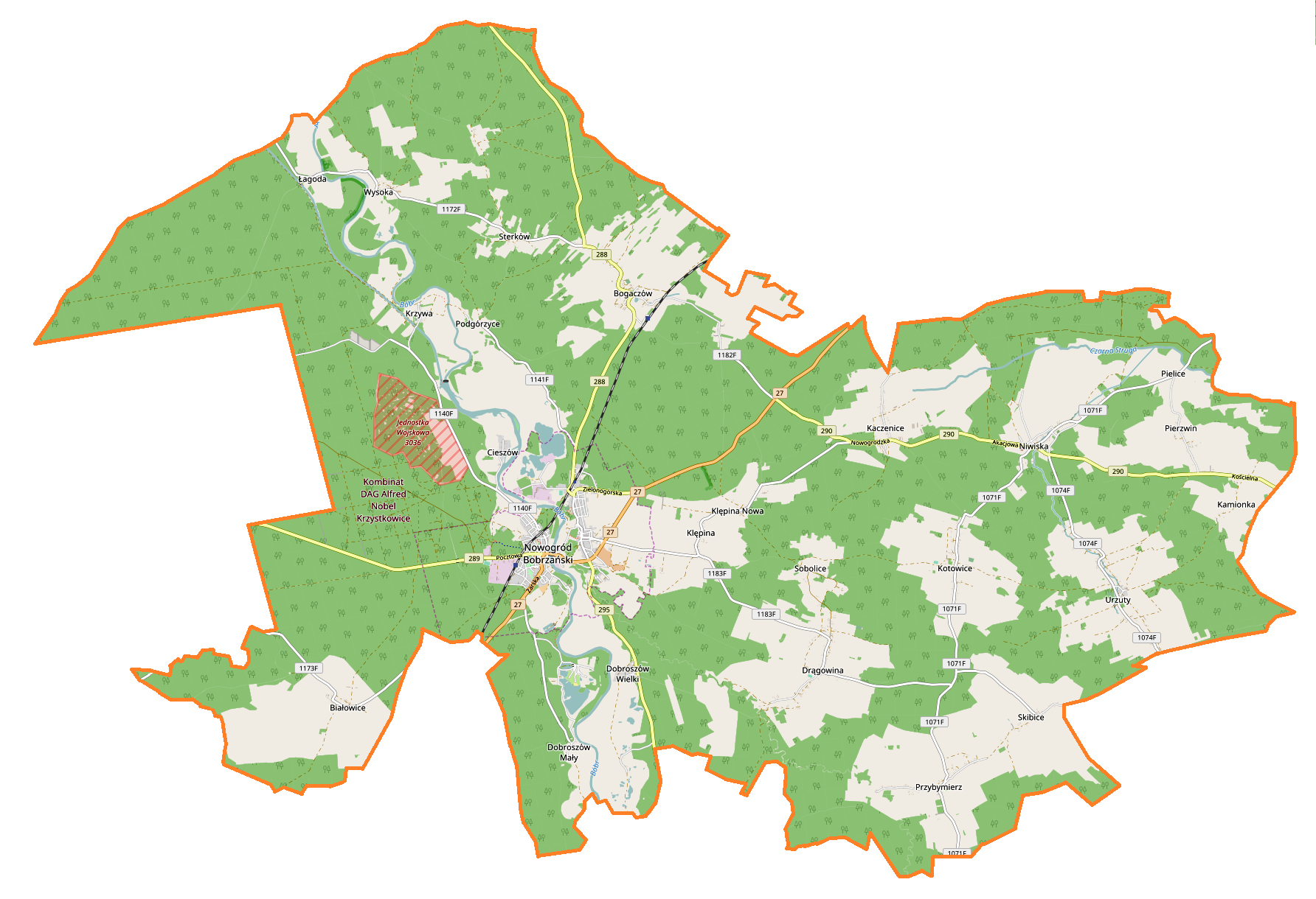 Location map